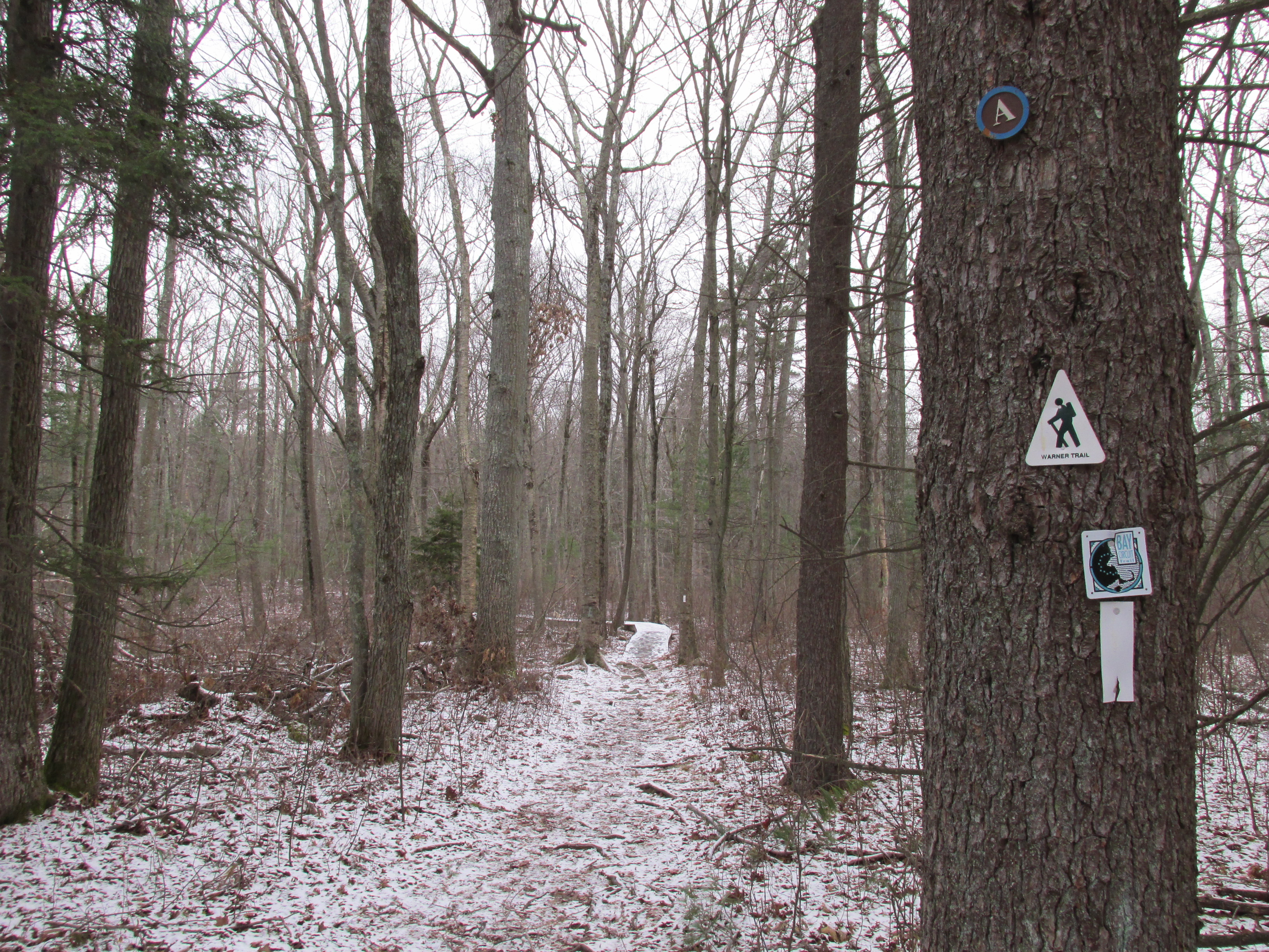 Warner Trail, Moose Hill Wildlife Sanctuary, Sharon Massachusetts